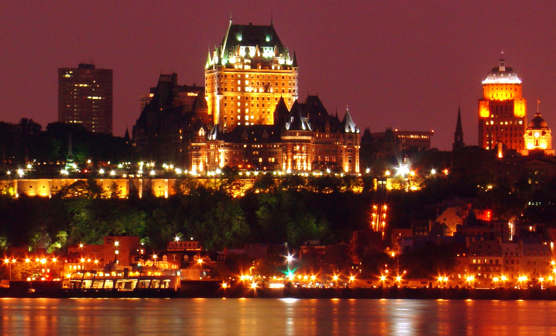 Please, have this description accessible to all by translating it in different languages.